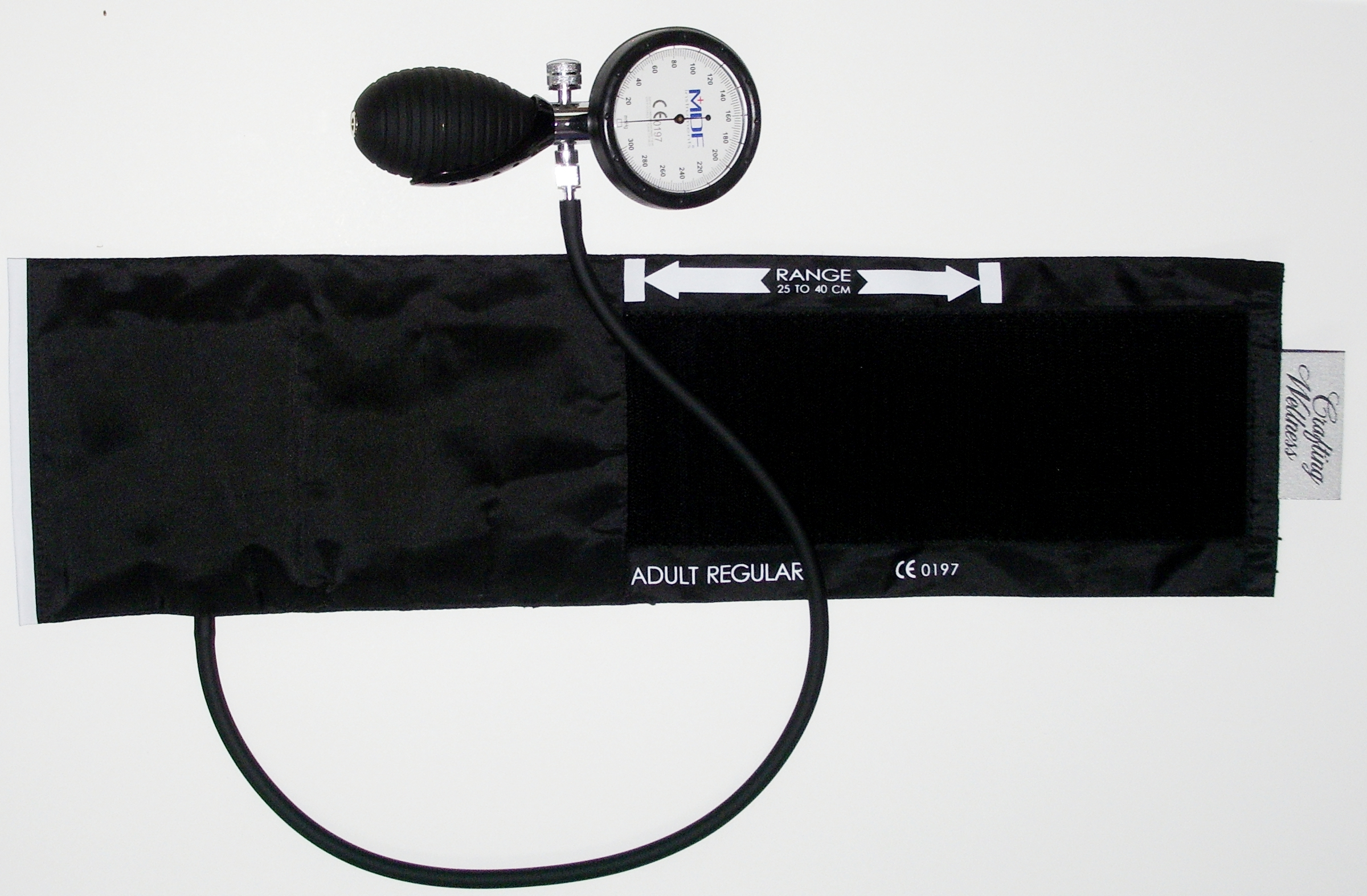 Sphygmomanometer with cuff, used to measure blood pressure.